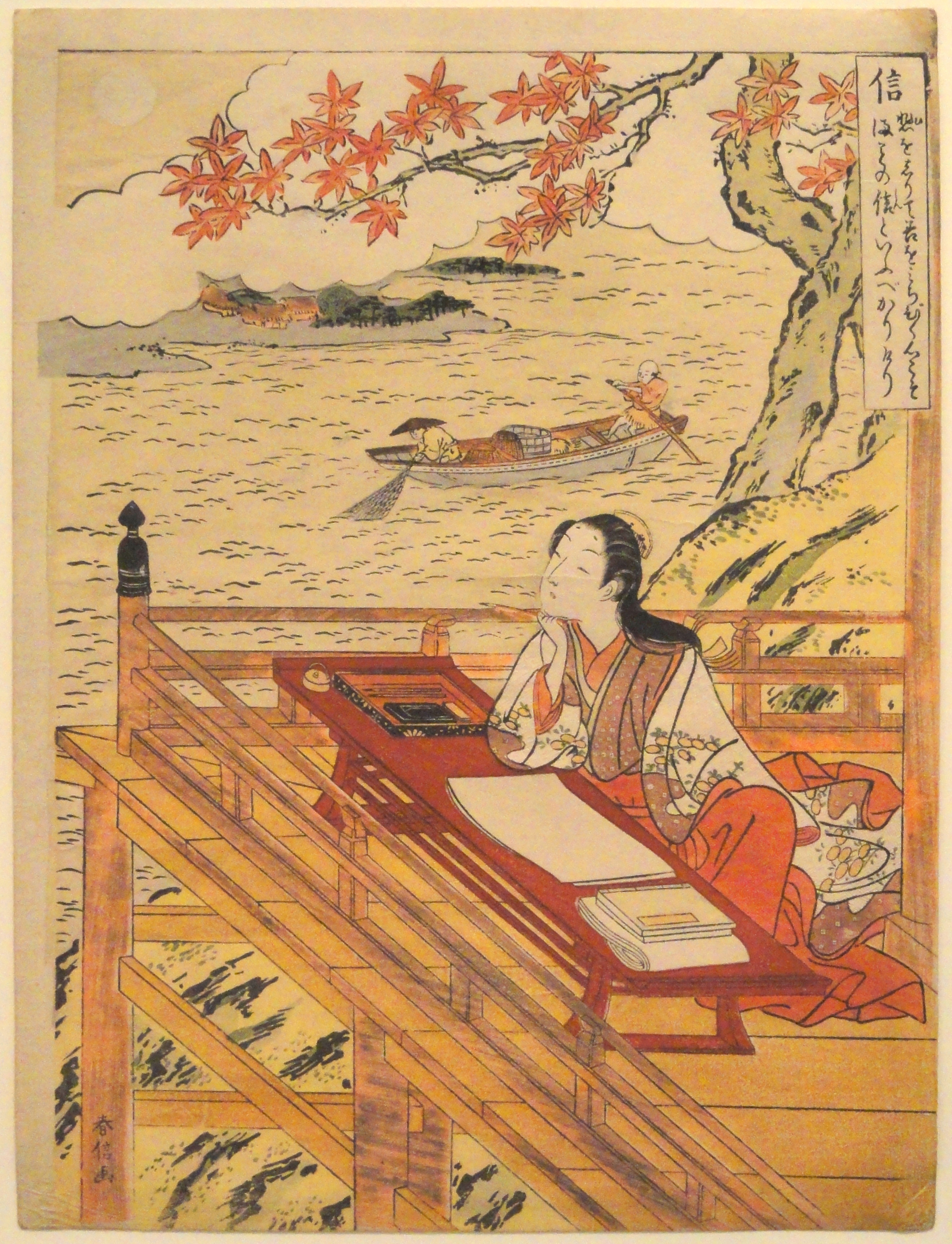 Exhibit in the Art Institute of Chicago, Chicago, Illinois, USA. This artwork is in the public domain because the artist died more than 70 years ago.